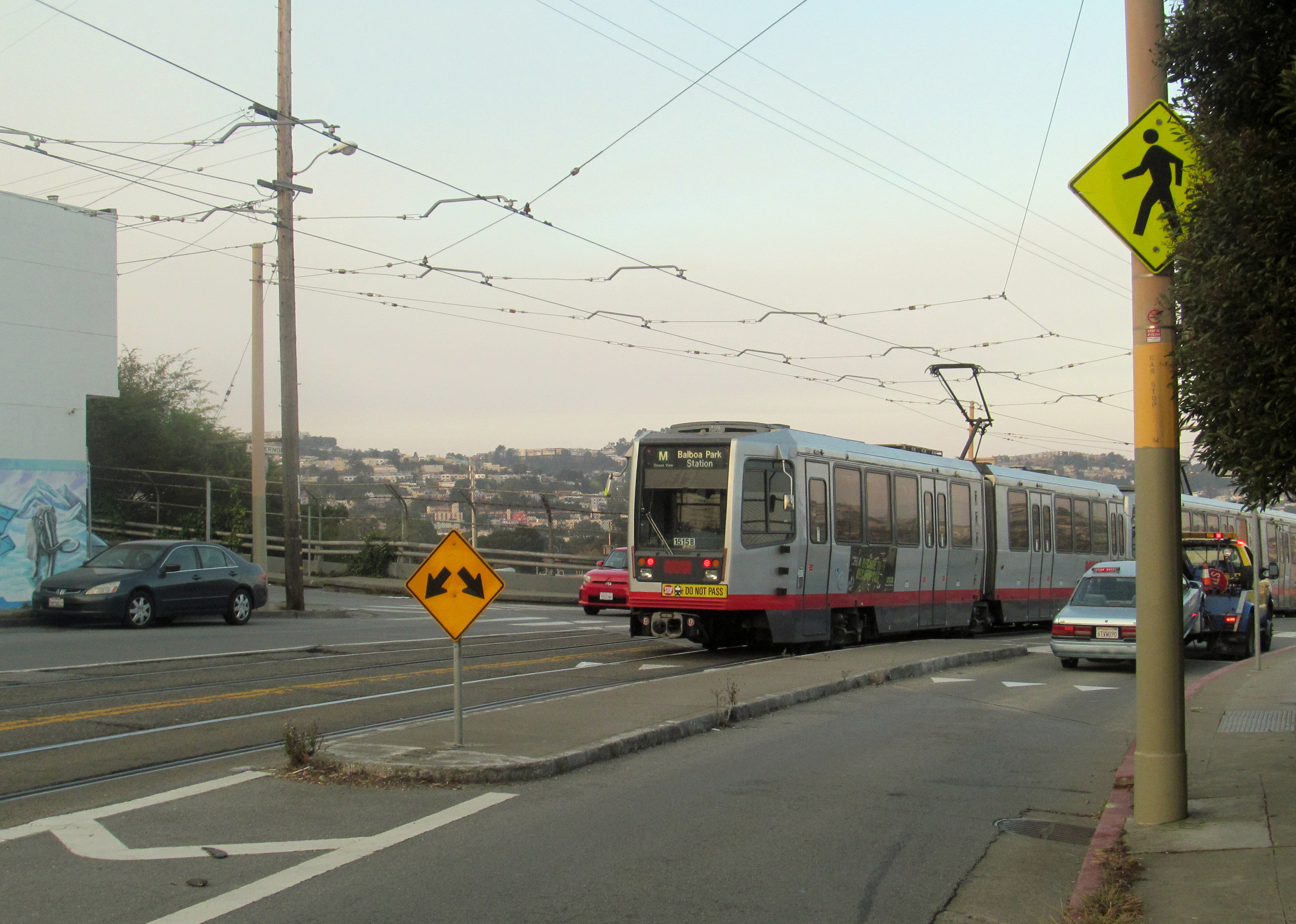 Outbound train at San Jose and Mount Vernon station in October 2017. Smoke from the wildfires to the north is visible.